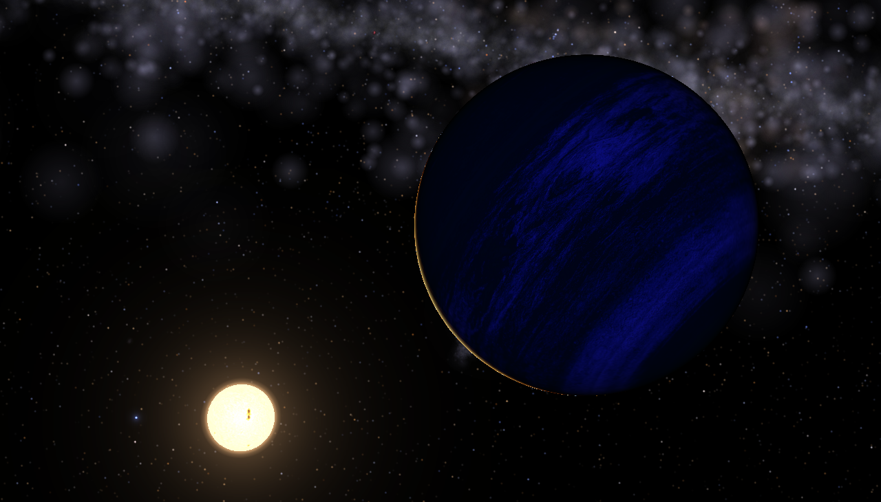 Epsilon Tauri b, extrasolar gas giant in Hyades Cluster.